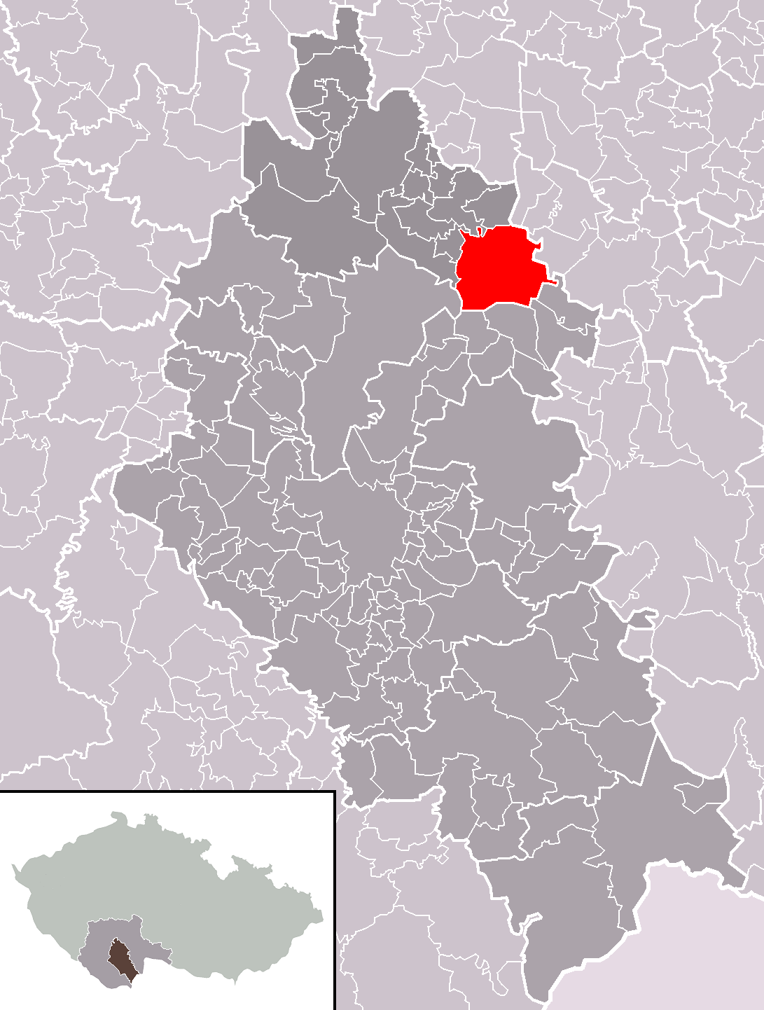 Location of Dolní Bukovsko municipality within České Budějovice District and administrative area of Týn nad Vltavou as a Municipality with Extended Competence.